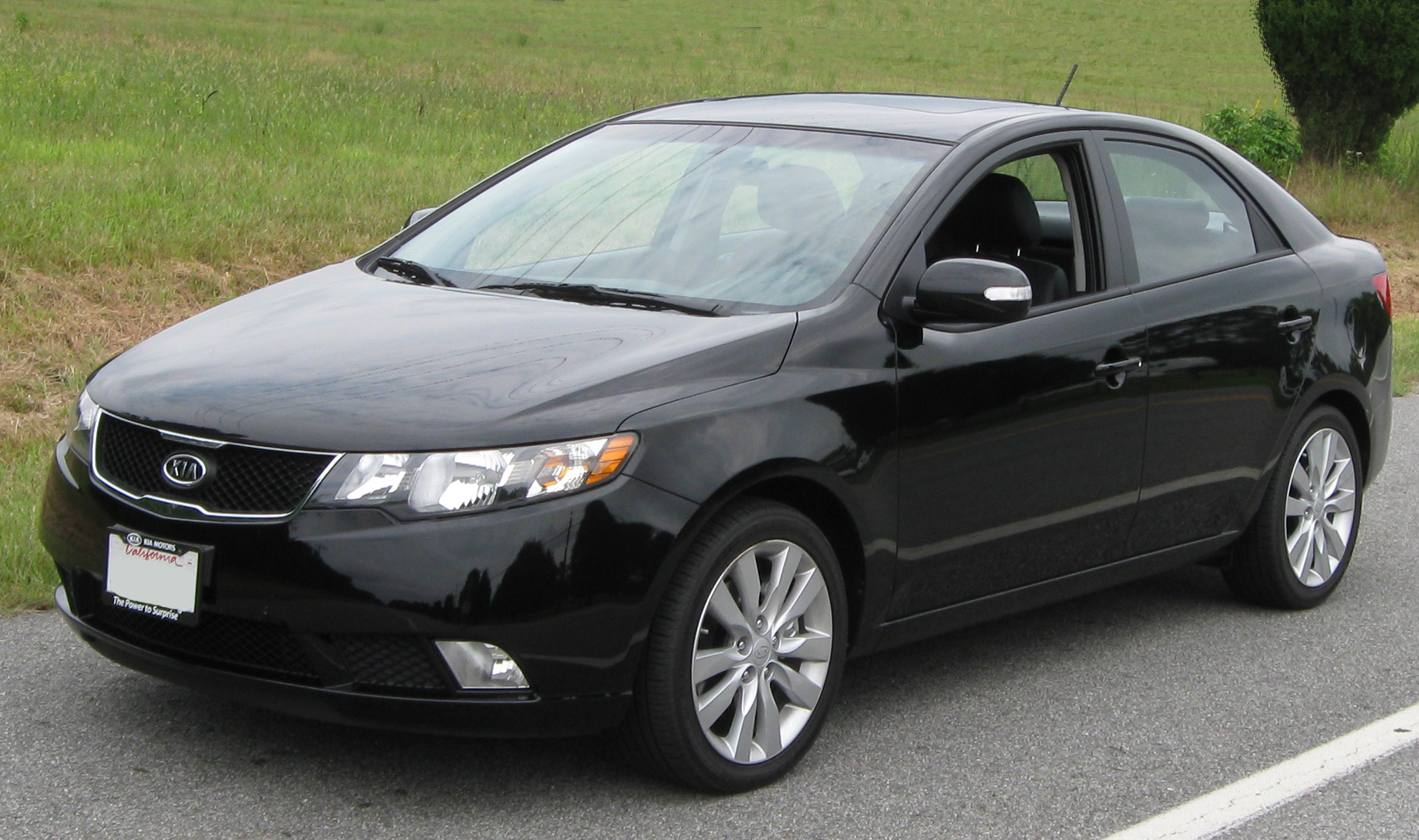 2010 Kia Forte SX photographed in Marshall Hall, Maryland, USA.